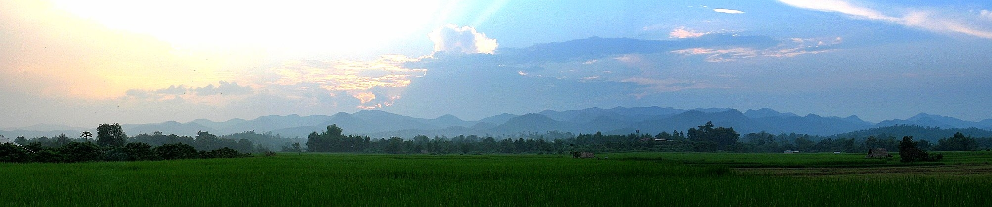 Panorama of the mountains south west of the town of Mae Sariang, in Mae Hong Son province, near sunset. Rice paddies cover the valley floor.